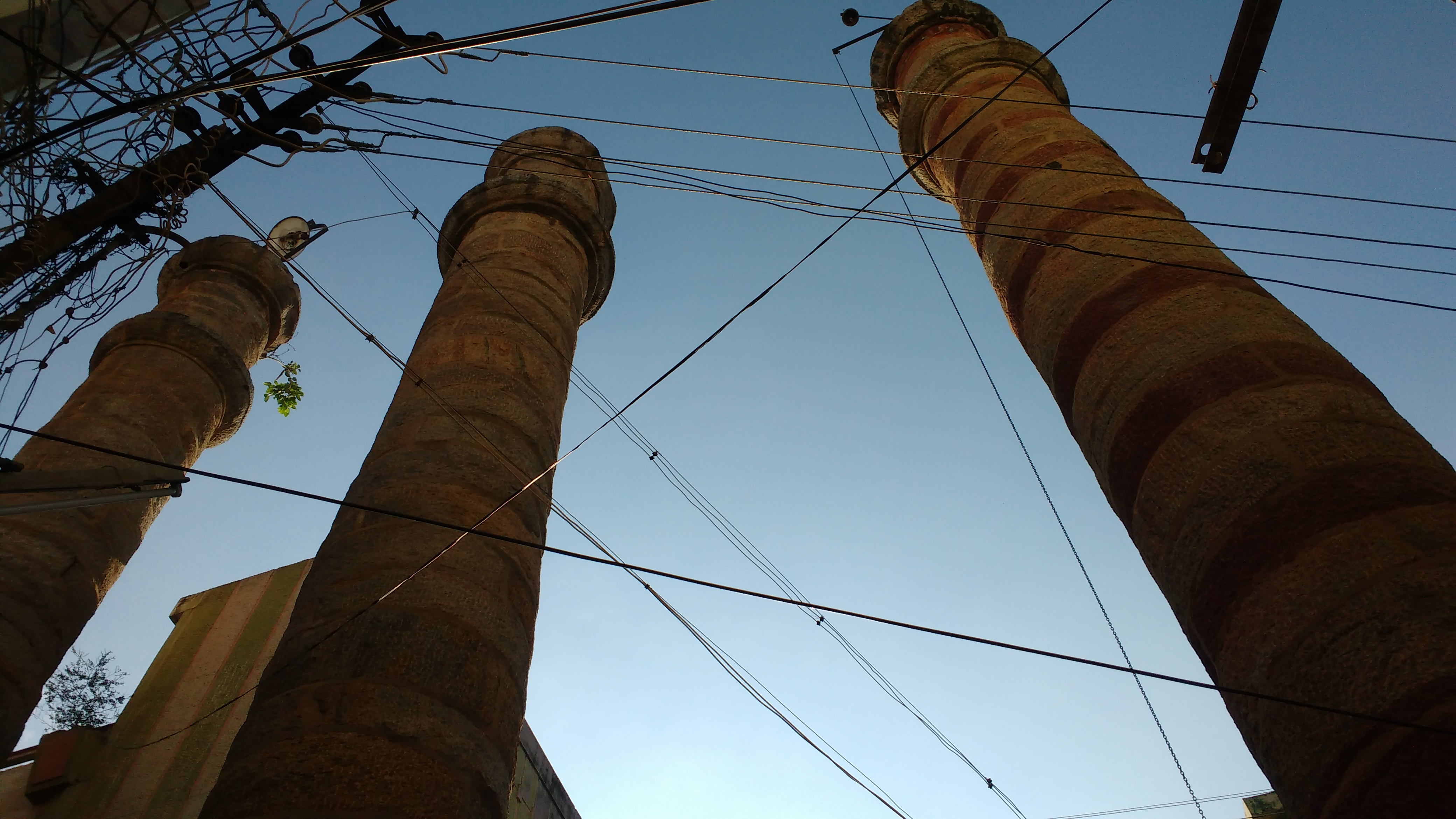 Notice board, about the history of the ten pillars which were built by Madurai Nayak Kings